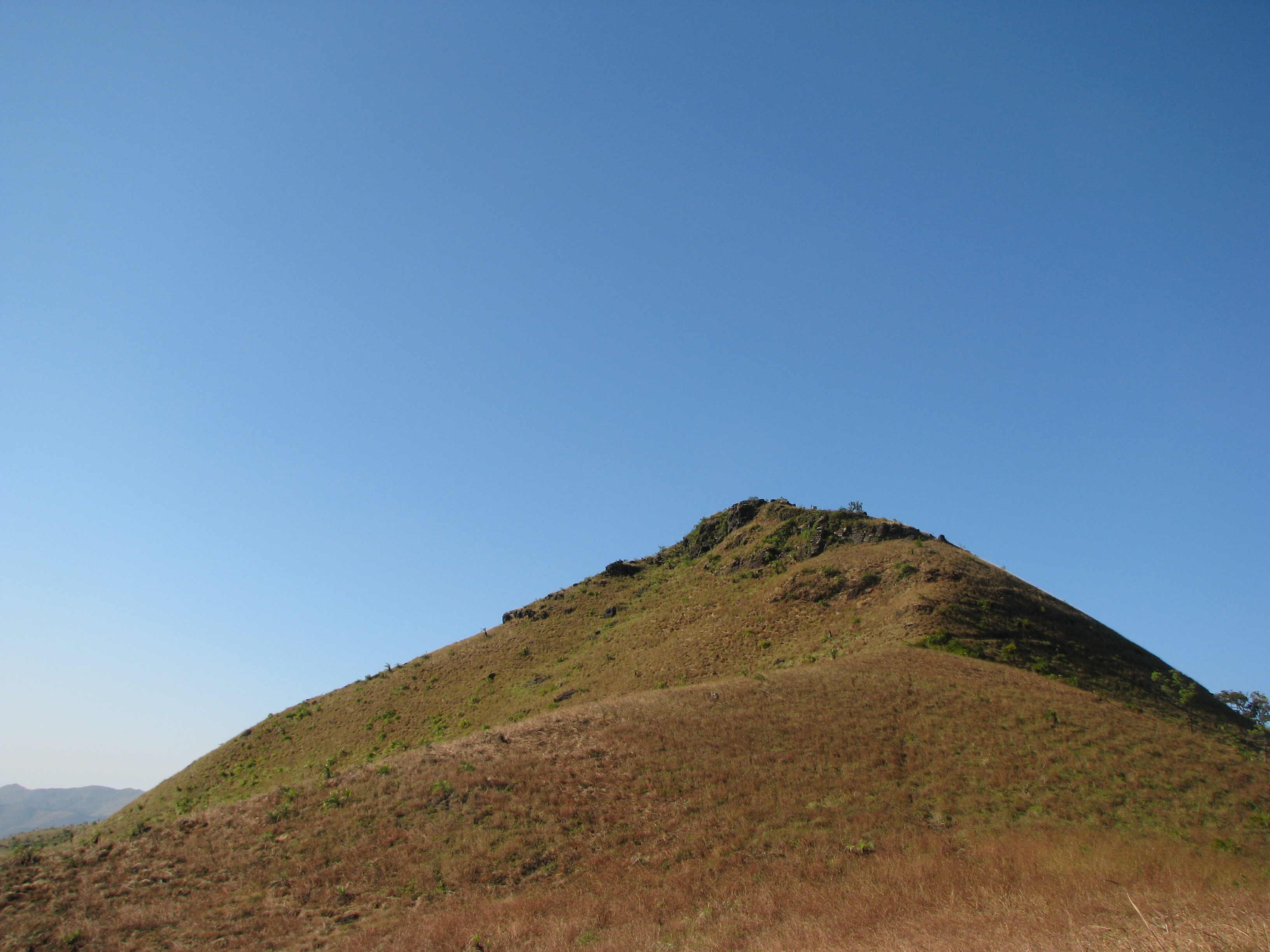 A peak near Kemmangundi, typically frequented by trekkers and hikers.